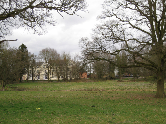 Haseley Hall, Five Ways Not featured in standard reference works for Warwickshire but is said to have been a late 18th century mansion. It was bought from Sir Edward Antrobus by Sir James Sawyer, an eminent physician. He made extensive additions and occupied it from 1891 until his death in 1919. Then it became a country home for senior staff of W & T Avery Ltd, the weighing machine manufacturer, who vacated it in 1928. By 1930 it was taken over by the Birmingham Society for the Care of Invalid Children; the occupants were girls suffering from "rheumatic hearts". From 1942 it operated as Haseley Hall Residential School for Boys - an open-air school - until its closure in 1974. Its history since then is not yet known but in recent times it appears to have been converted to apartments and small businesses. Information from James Yardley and the book 'A Breath of Fresh Air: Birmingham's Open-Air Schools 1911-1970' by Frances Wilmot and Pauline Saul, published by Phillimore, 1998.